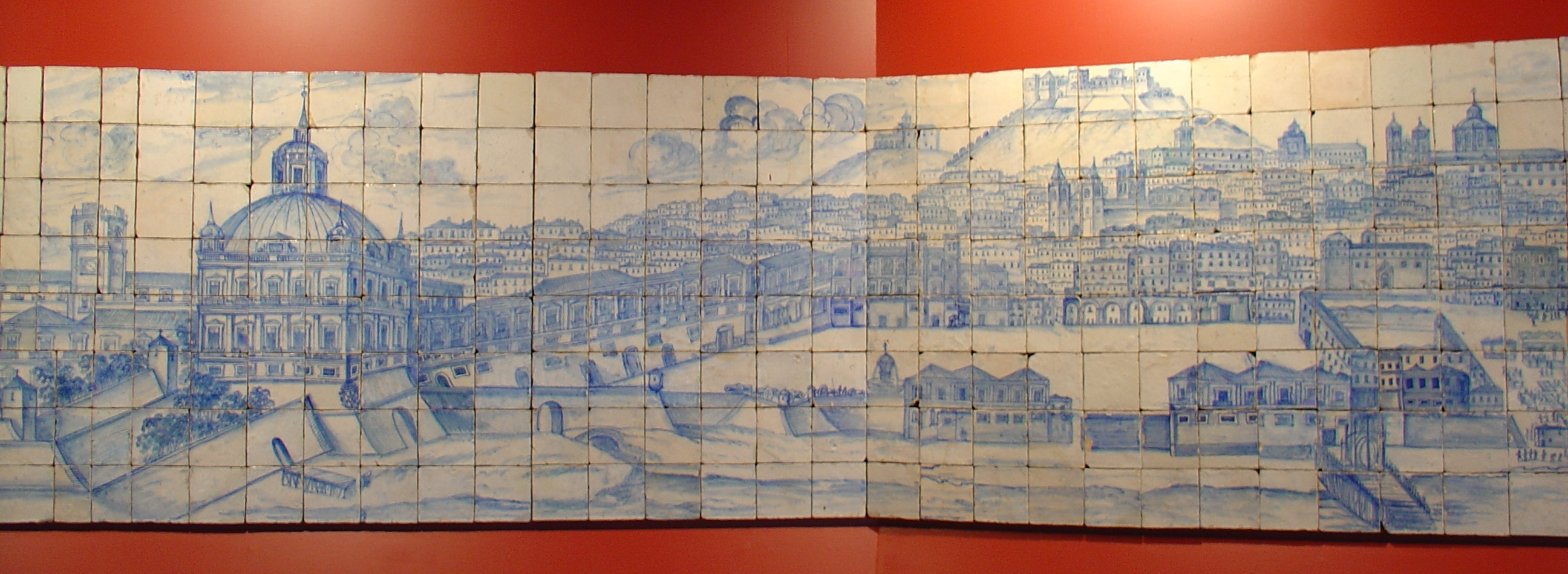 Praça do Comércio (Terreiro do Paço), Lisbonne before the earthquake of 1755